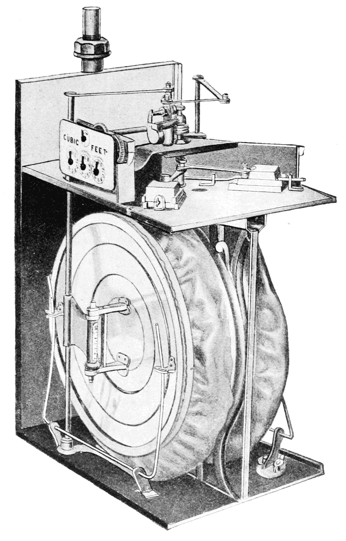 Interior of a common gas meter